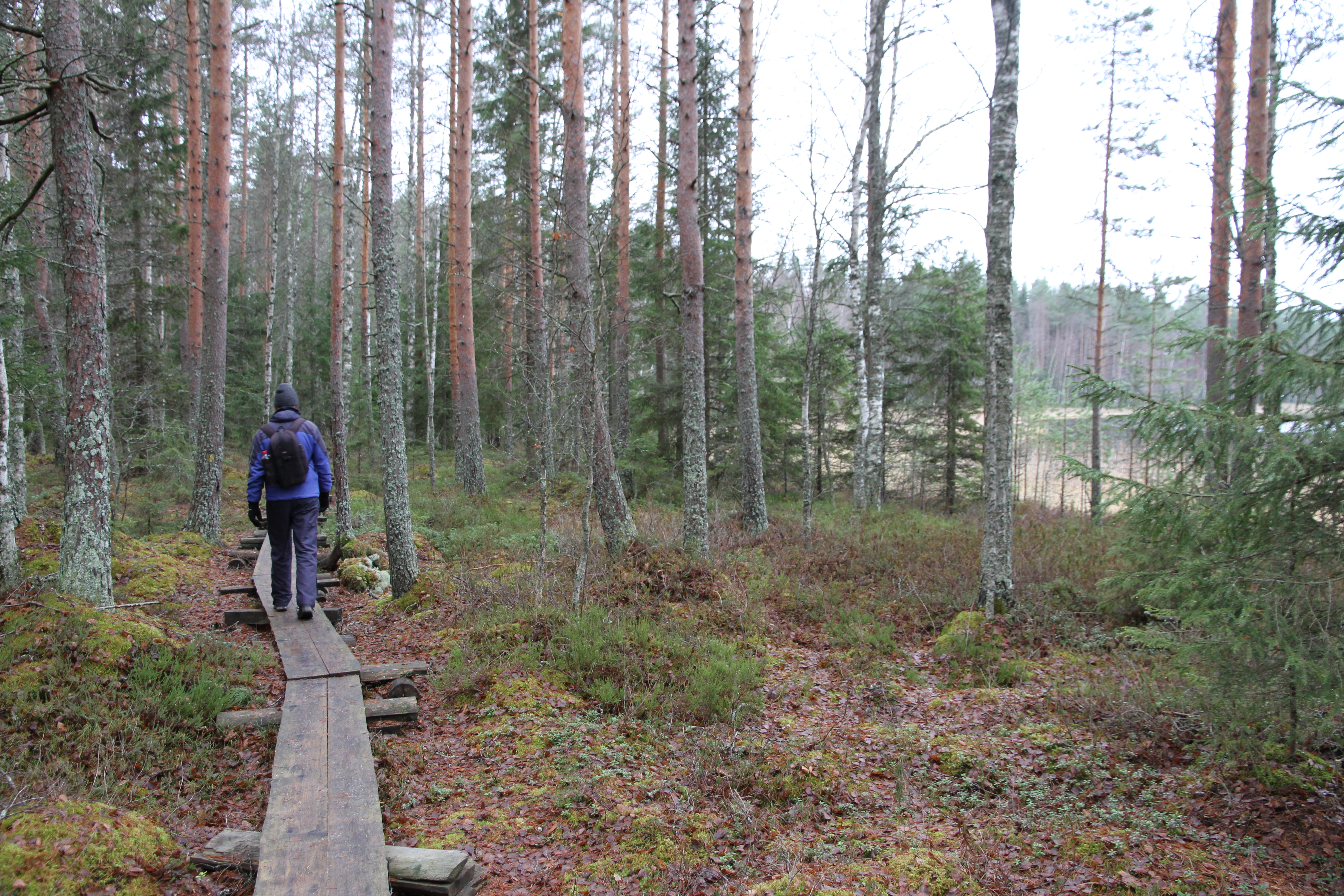 Liesjärvi National Park, Finland.